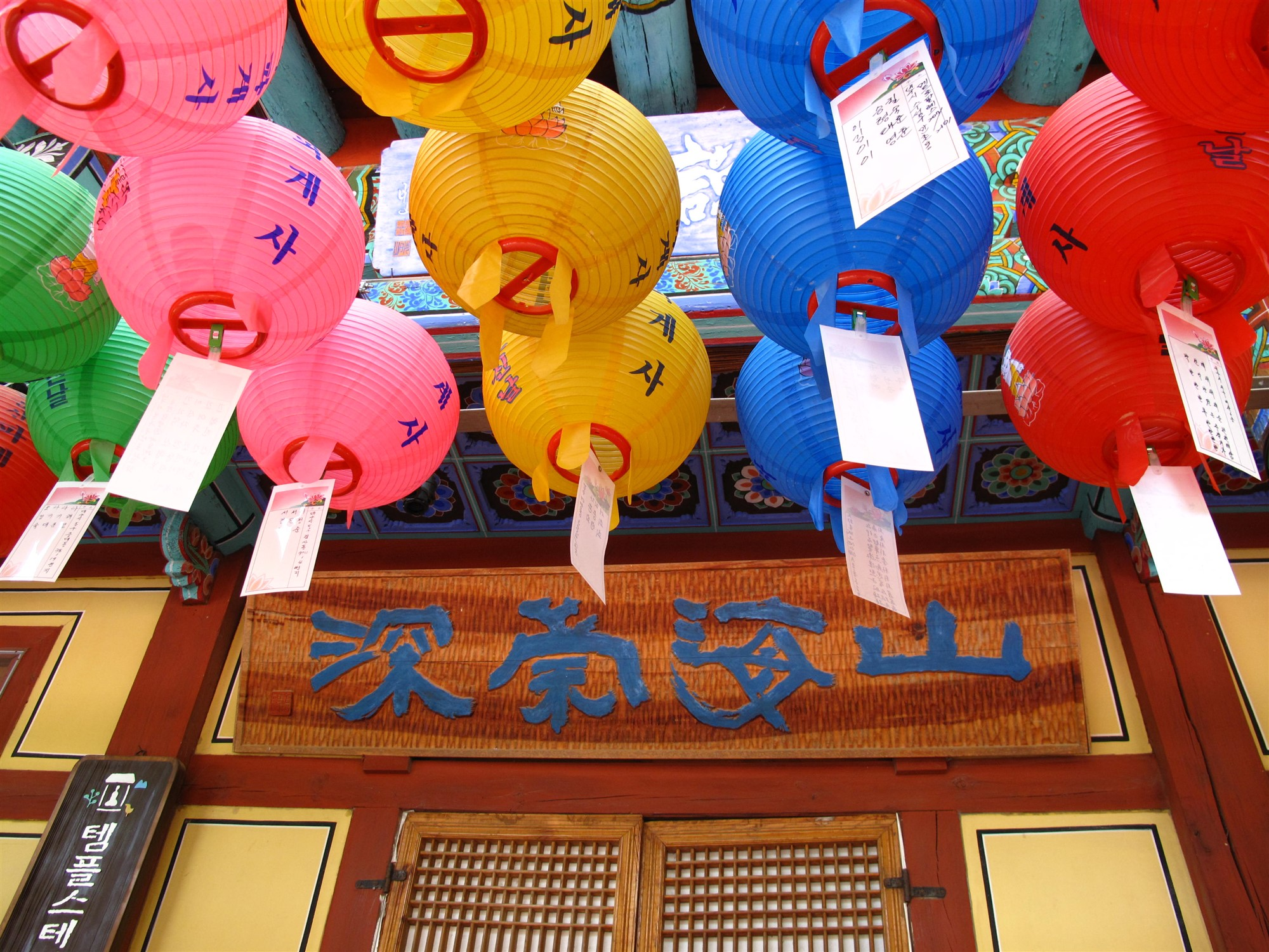 Buddha's Birthday lanterns and a hall ceiling at Pagyesa Temple, Palgongsan, near Daegu, South Korea